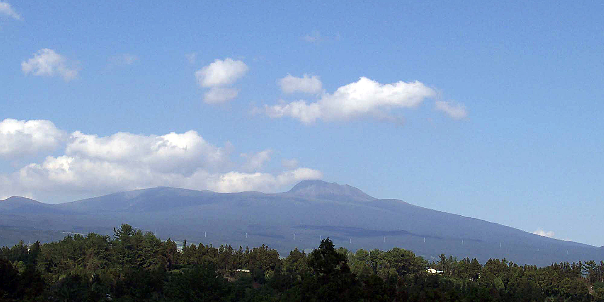 Vulcano Mount Hallasan on Jejudo Island, South Korea